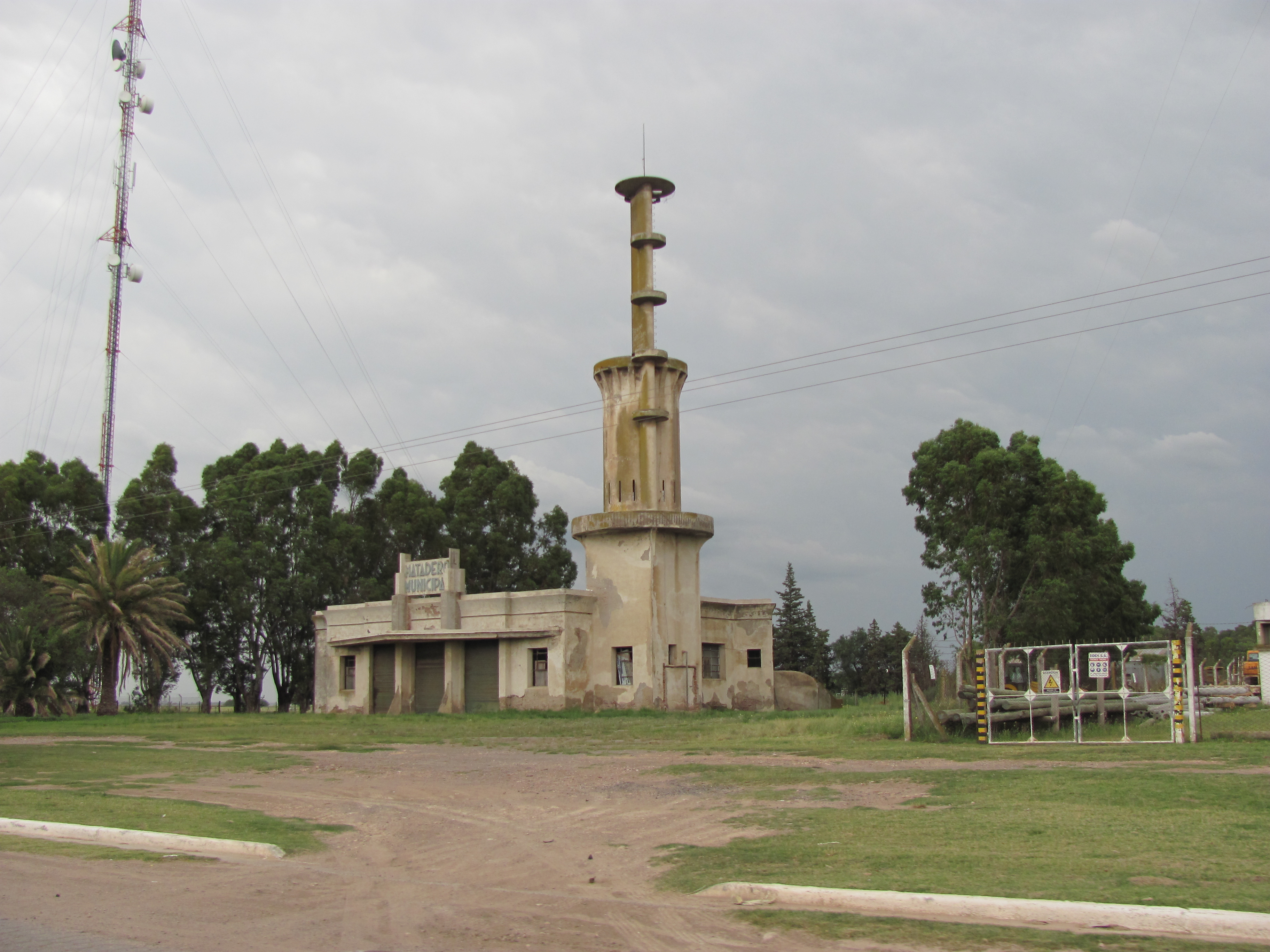 Matadero de Guamini